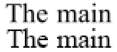 PDF-Renderer. Above Sumatra, below Adobe Reader.